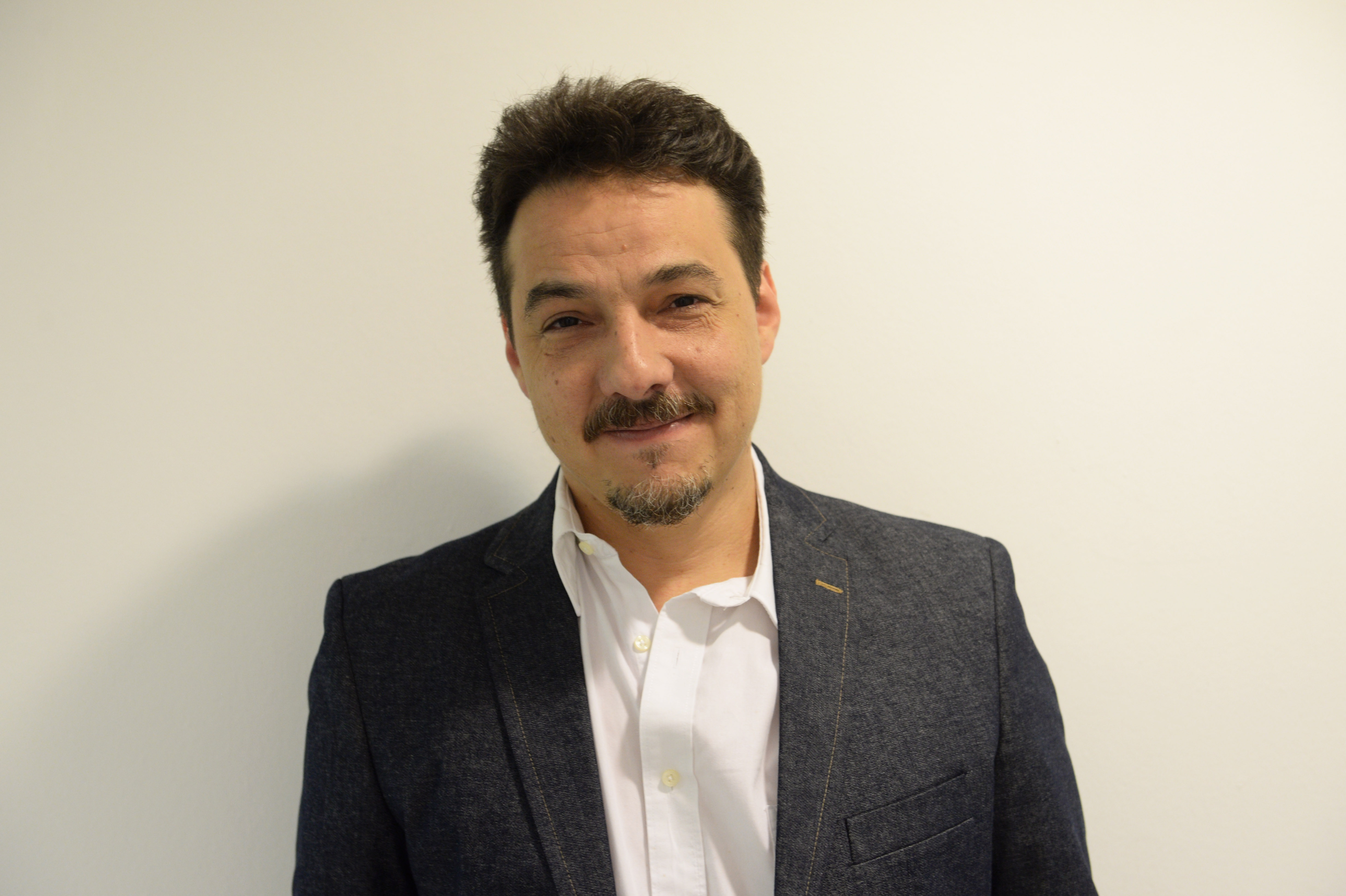 Fernan Miras